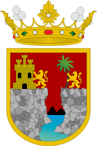 Escudo de Chiapas